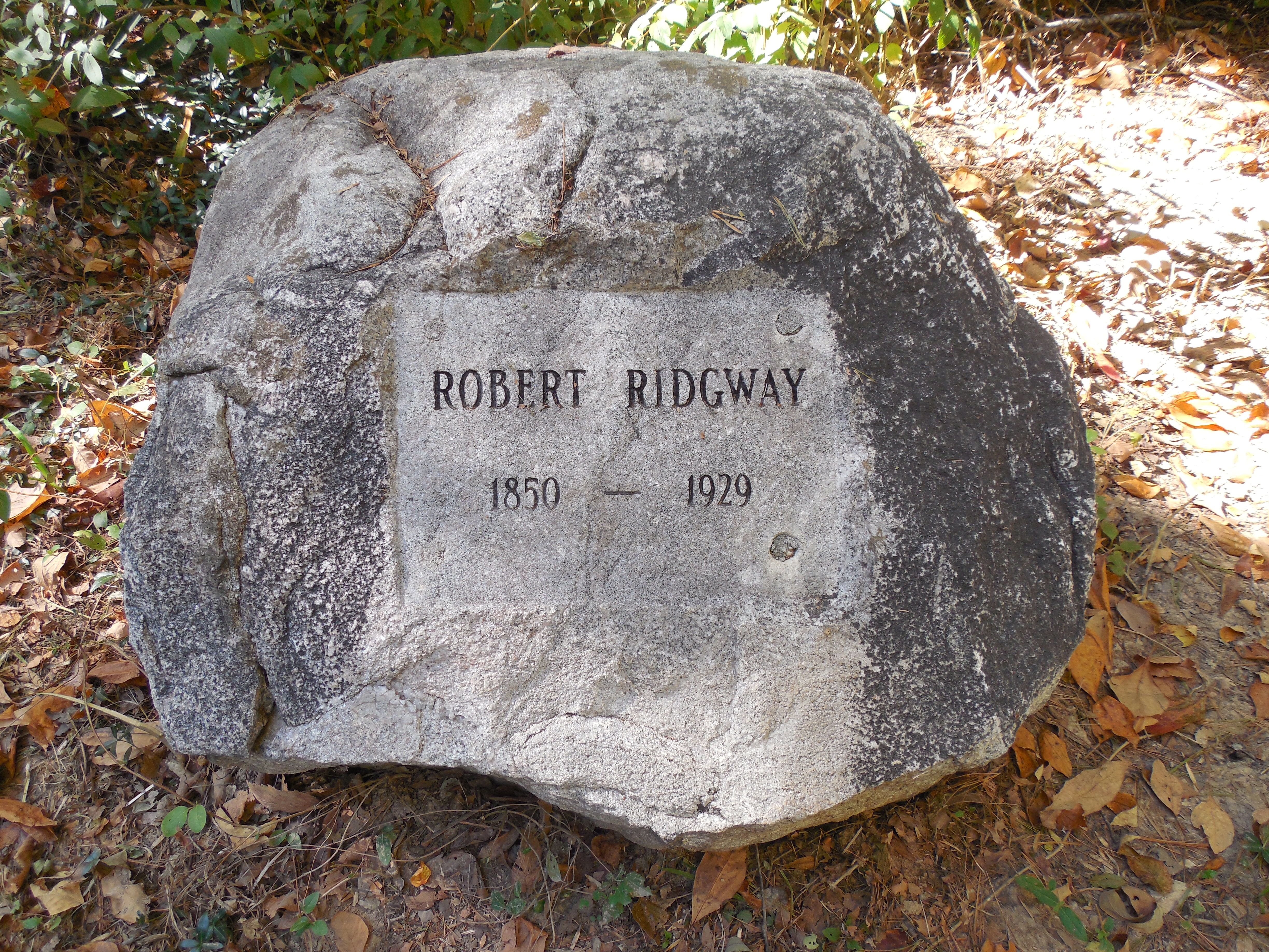 Grave marker of Robert Ridgway (1850-1929), American ornithologist. Ridgway is buried at Bird Haven, Olney, Illinois; Bird Haven is now part of the city park at East Fork Lake.